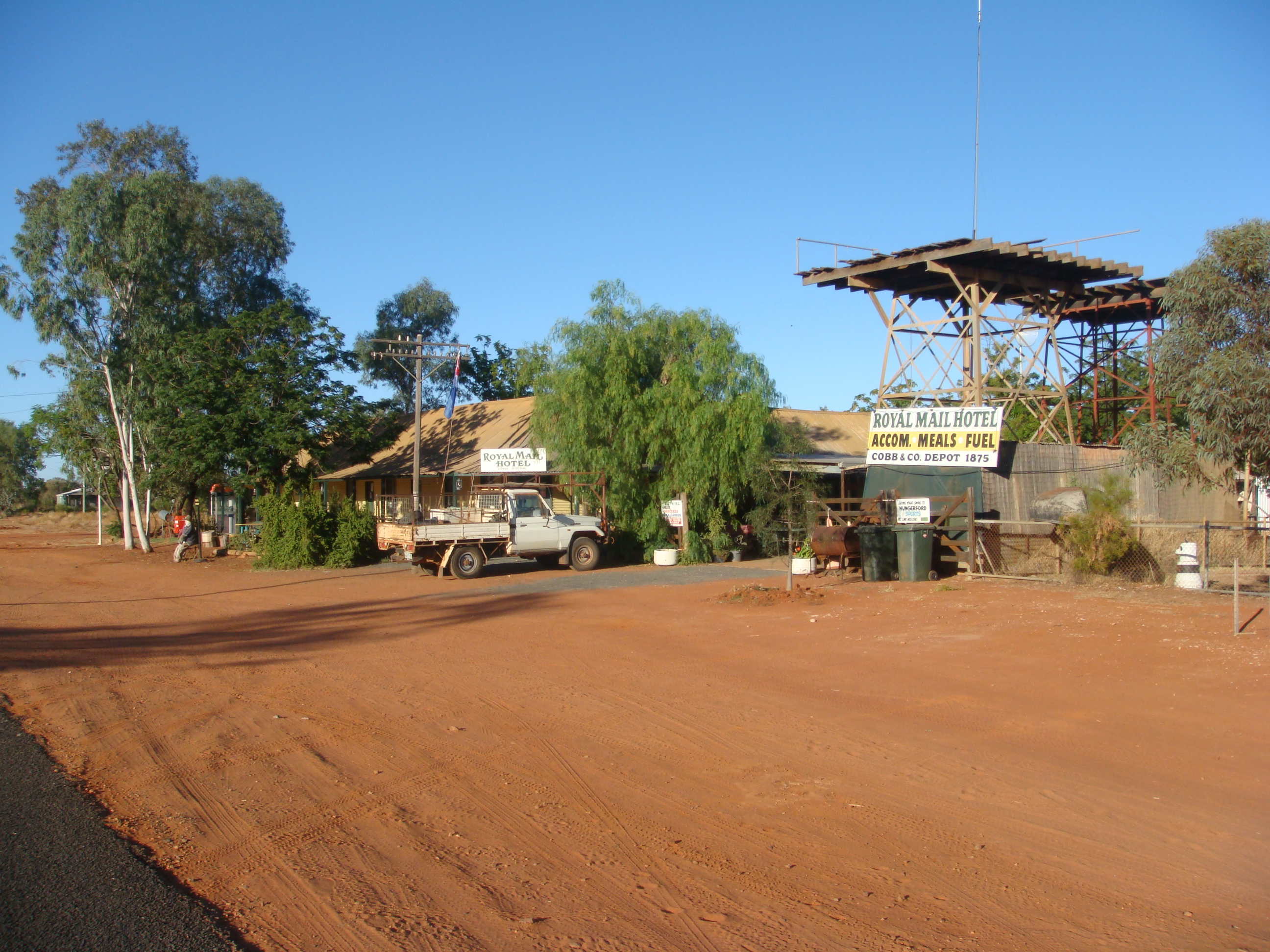 The view around the Royal Mail Hotel, Hungerford Road, Hungerford, Bulloo Shire, Queensland.